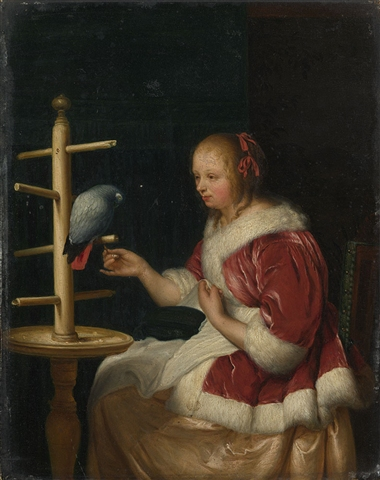 Johann Jakob Mettenleiter, Girl with bird, oil on panel size 8,9 x 7,1 in. / 22,5 x 18 cm.